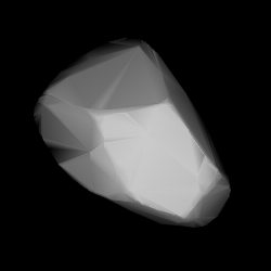 3D convex shape model of 1214 Richilde, computed using light curve inversion techniques. J. Hanuš, J. Ďurech, M. Brož, B. D. Warner (June 2011). "A study of asteroid pole-latitude distribution based on an extended set of shape models derived by the lightcurve inversion method". Astronomy and Astrophysics 530: A134. ISSN 0004-6361. arXiv